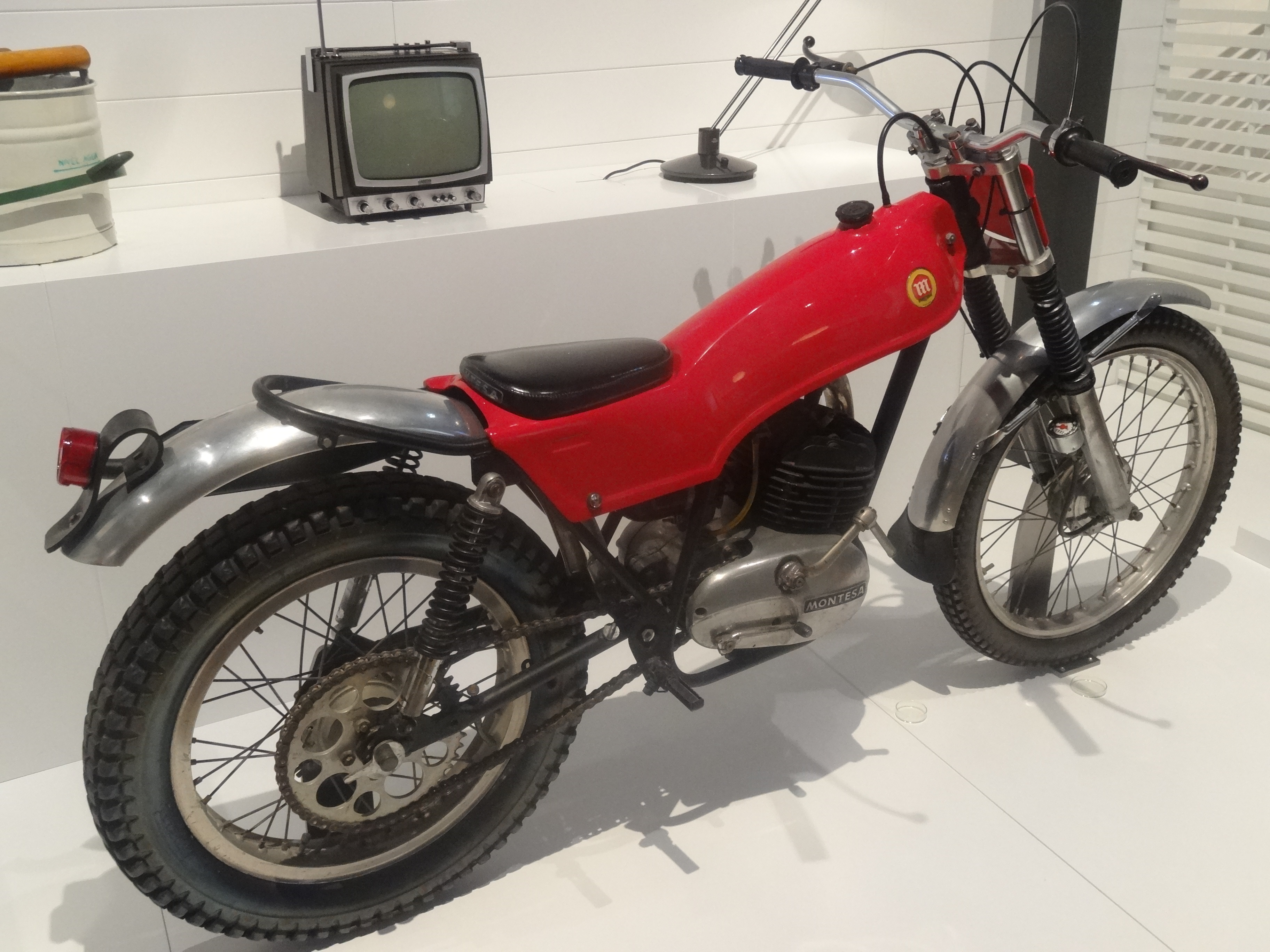 Product Design Collection of Museu del Disseny de Barcelona, located at the permanent exhibition of the 1st floor of the Glories building. Montesa Cota 247, the first trial bike in history.